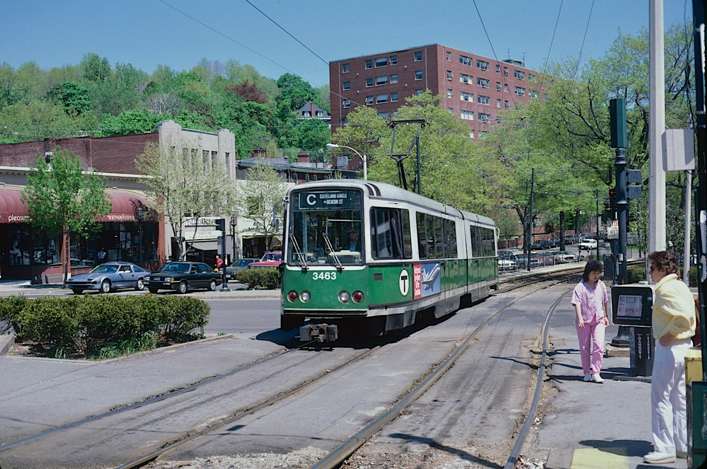 MBTA (Boston) 3463, a 1977 U.S. Standard Light Rail Vehicle (Boeing-Vertol LRV), westbound on the Green Line's "C" Branch, in the median of Beacon Street, crossing Washington Street, in Brookline.